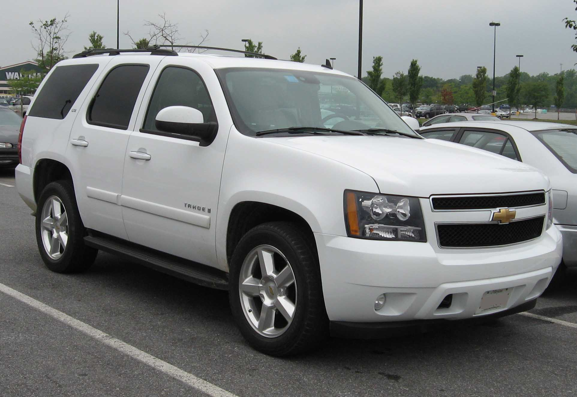 2007 Chevrolet Tahoe photographed in USA.